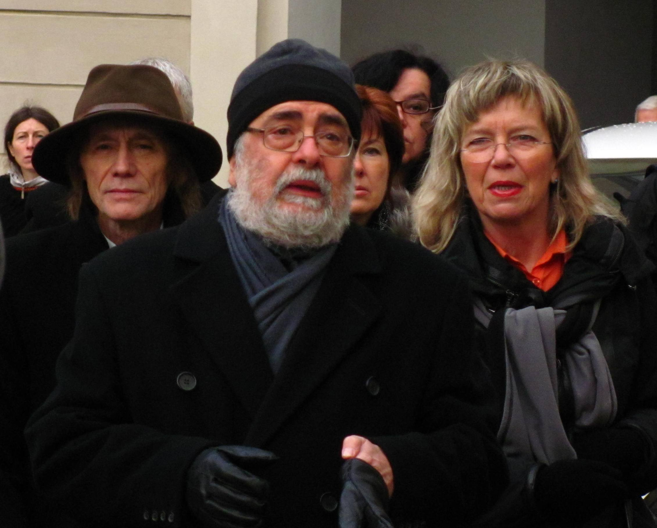 Ivan Kral (left), Vladimír Hanzel (center) and Jitka Severová among mourning guests on Václav Havel funeral (Prague Castle, 23rd Dec., 2011)